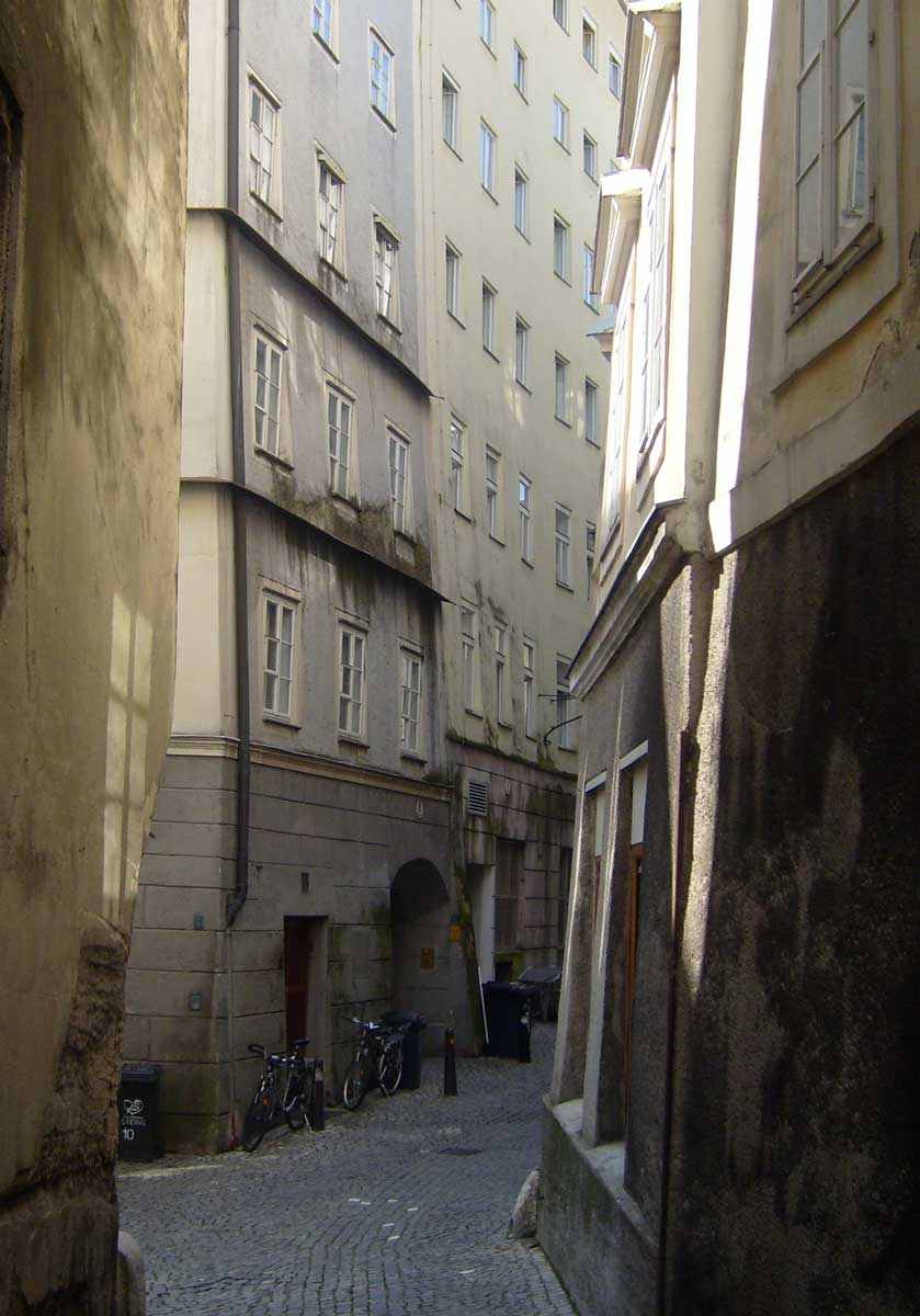 Steingasse in Salzburg, facing North